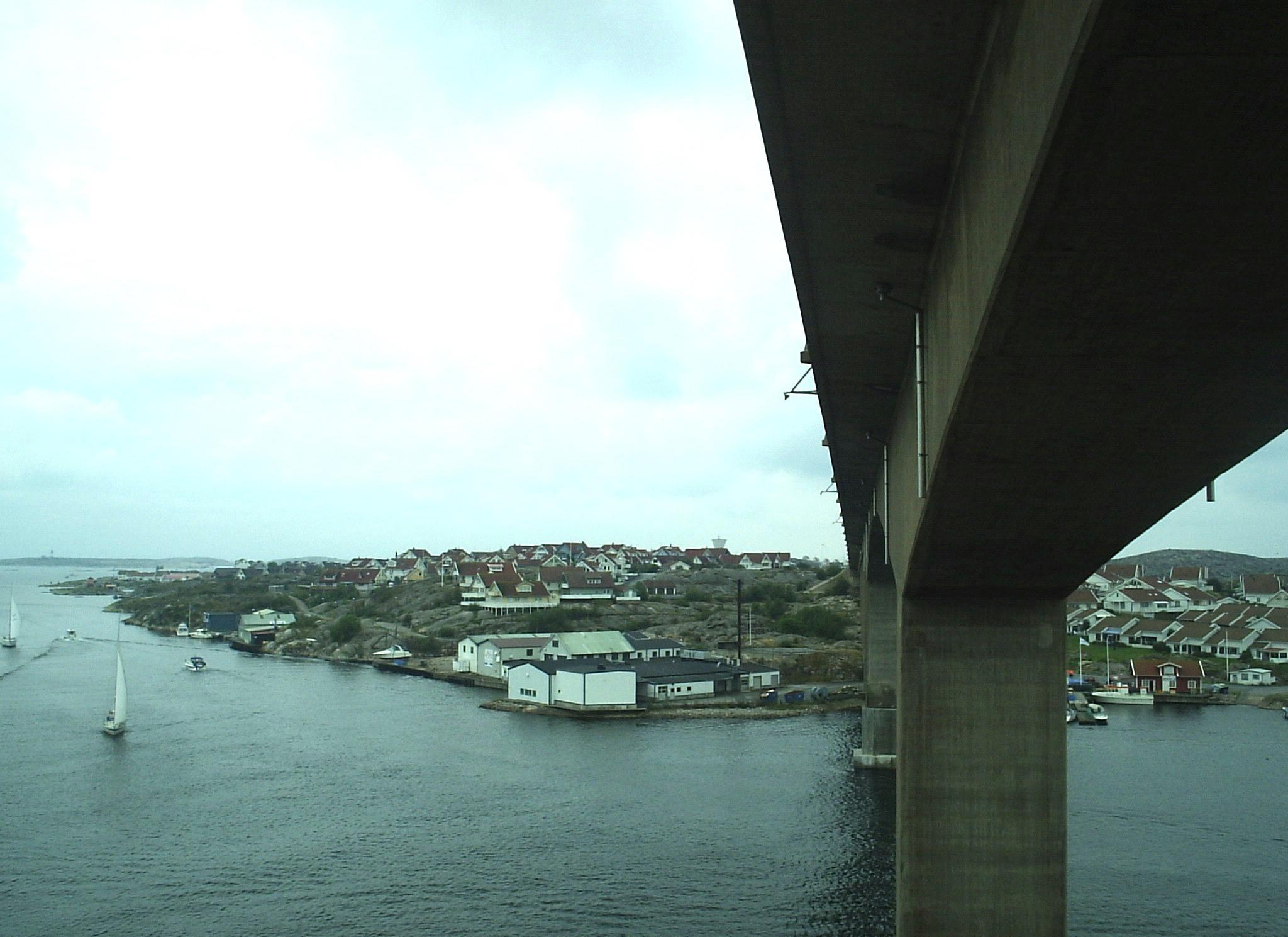 Photo by Harri Blomberg.